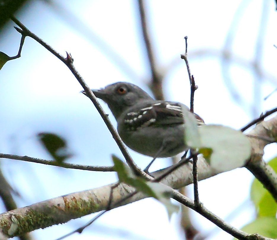 Northern slaty antshrike (male) at Manaus - AM - Brazil